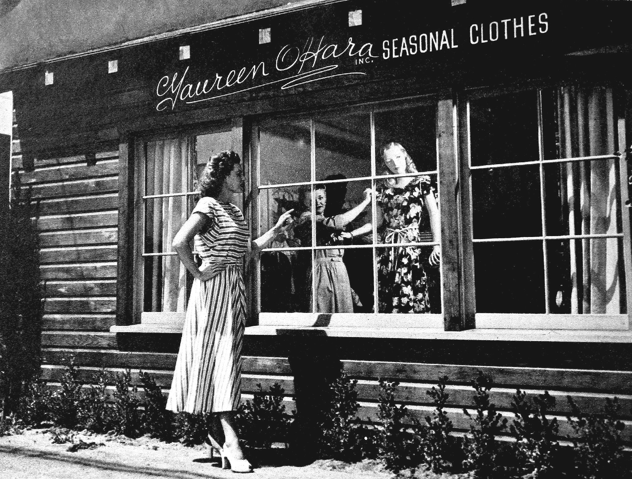 Photo of Maureen O’Hara’s dress shop in Tarzana, Los Angeles, from Modern Screen magazine.